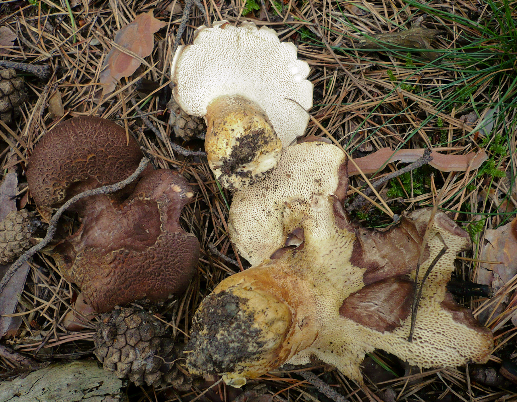 Albatrellus pes-caprae Pouzar Image location: Greimkogel, Schwarzenbach, Bezirk Wiener Neustadt, Lower Austria, Austria Recognized by sight: unmistakable! For more information about this, see the observation page at Mushroom Observer.